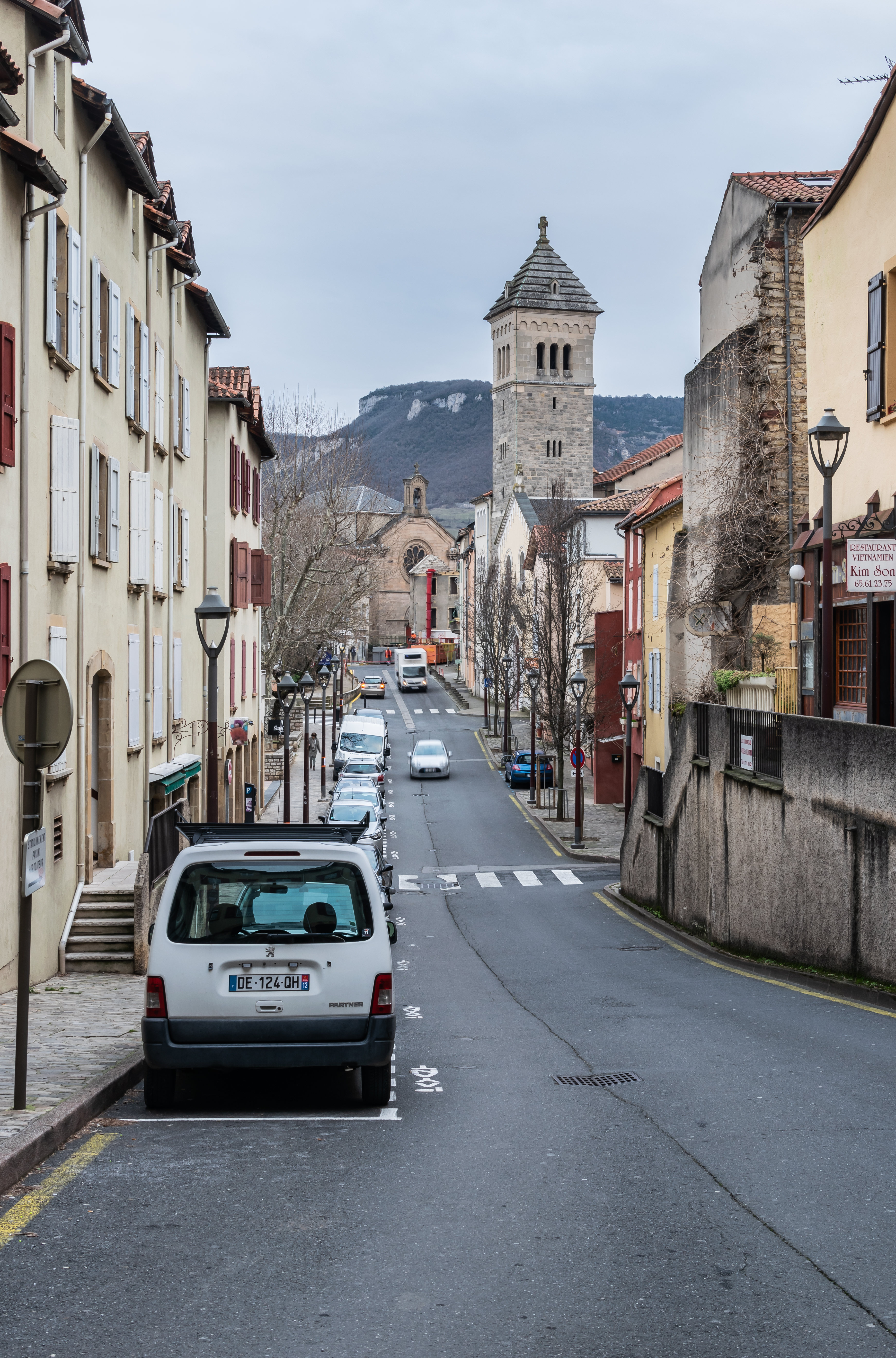 Rue Saint-Martin in Millau, Aveyron, France